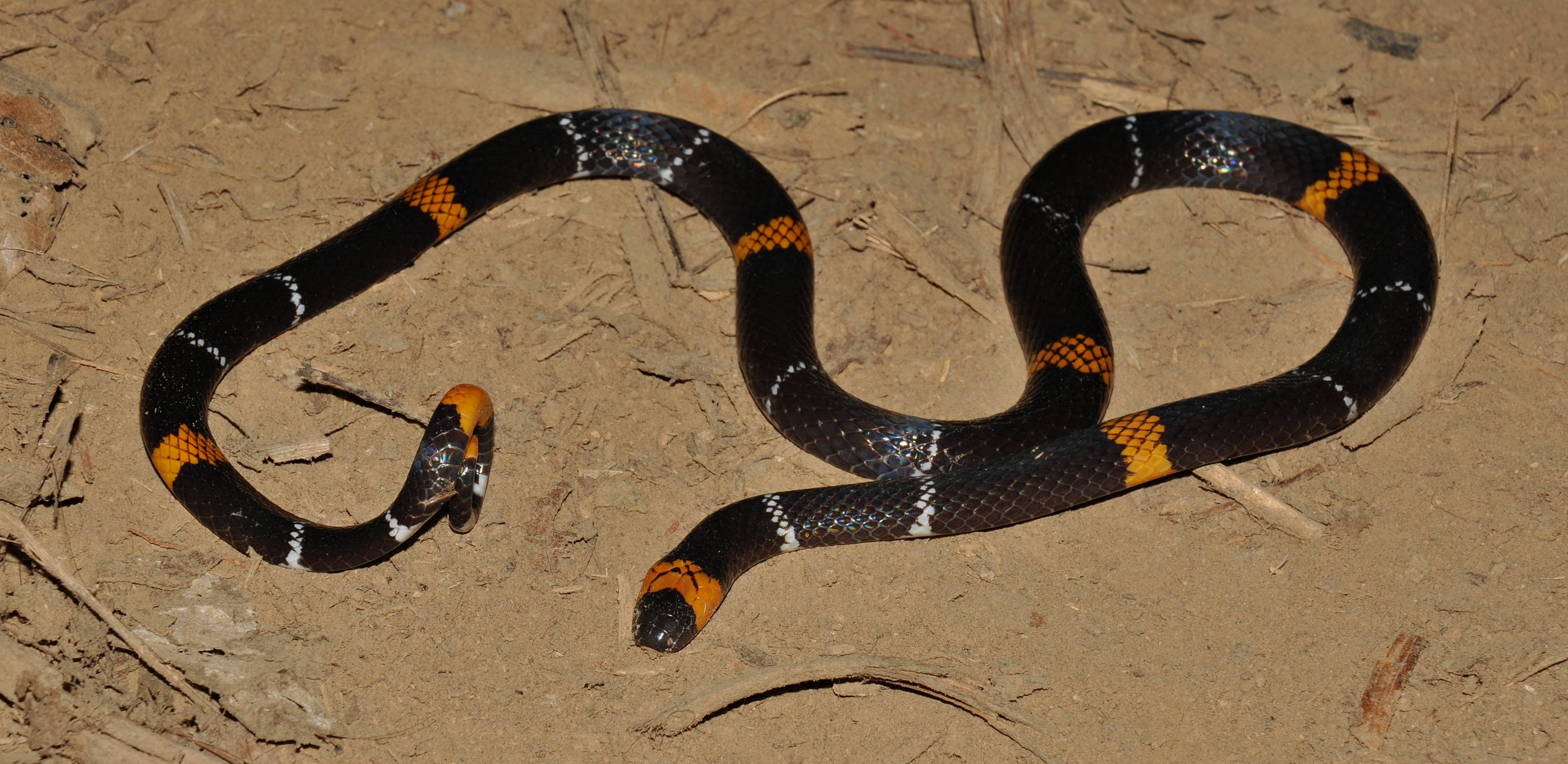 Hemprichii's CoralSnake (Micrurus hemprichii)